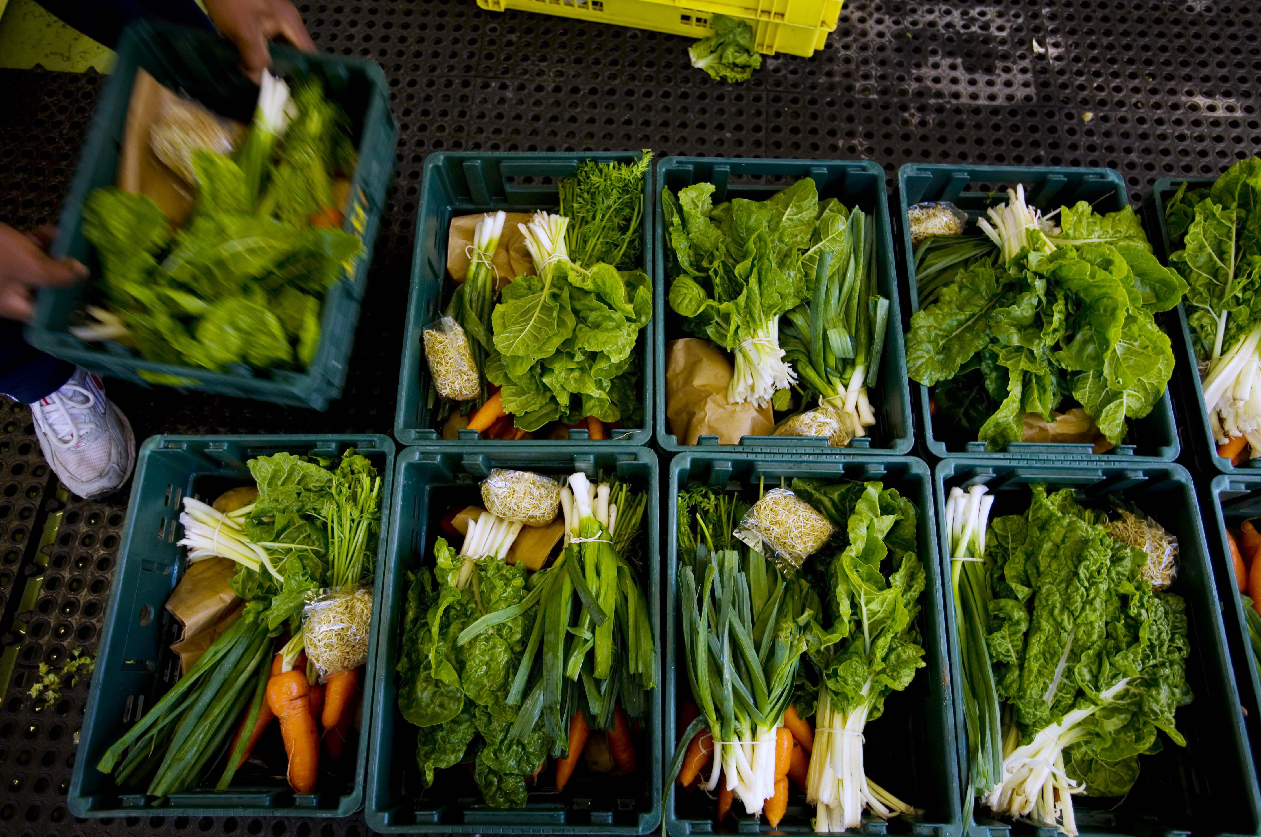 Boxes of fresh vegeables that have been grown in the Abalama Bezehkaya garden await distribution in Guguletu, Cape Town, South Africa on the 9th June, 2009. The Abalami Bezehkaya project teaches people better farming techniques and sells fresh produce weekly to generate incomes for the farmers involved.